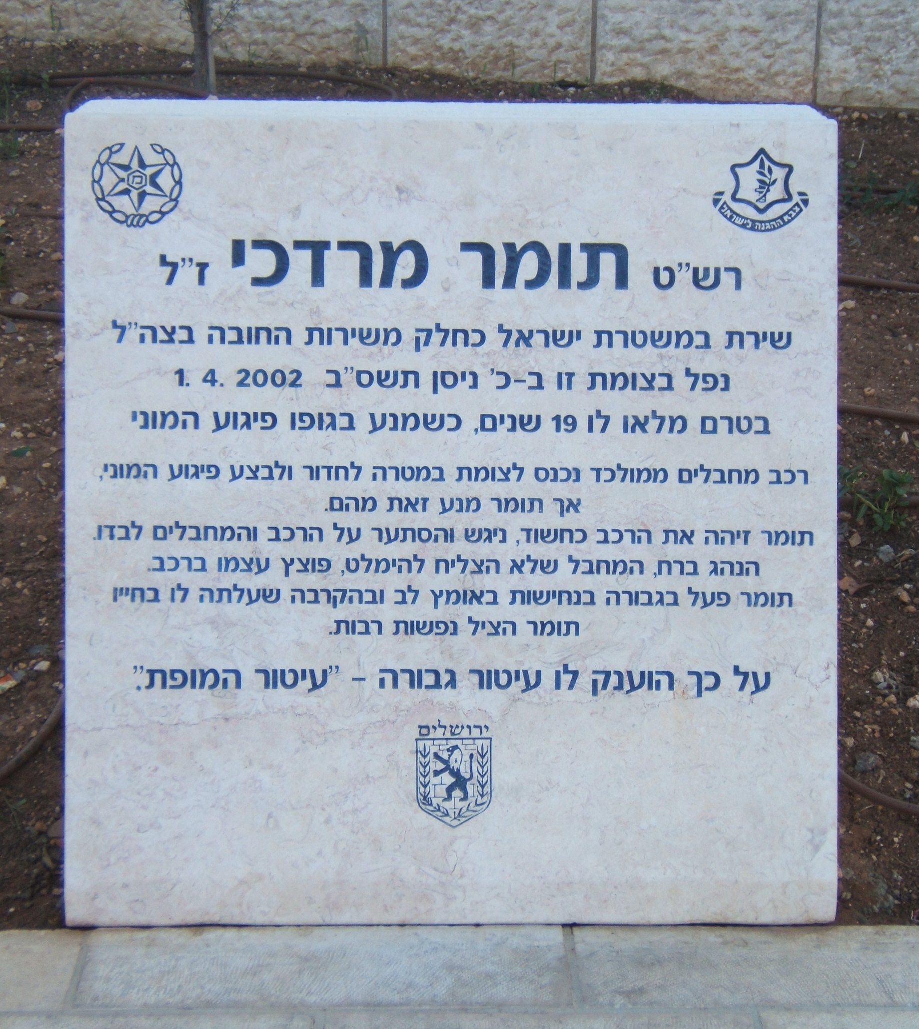 Mitzpor Tomer, Street of Prophets, Jerusalem